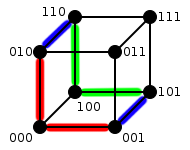 A cycle in a hypercube